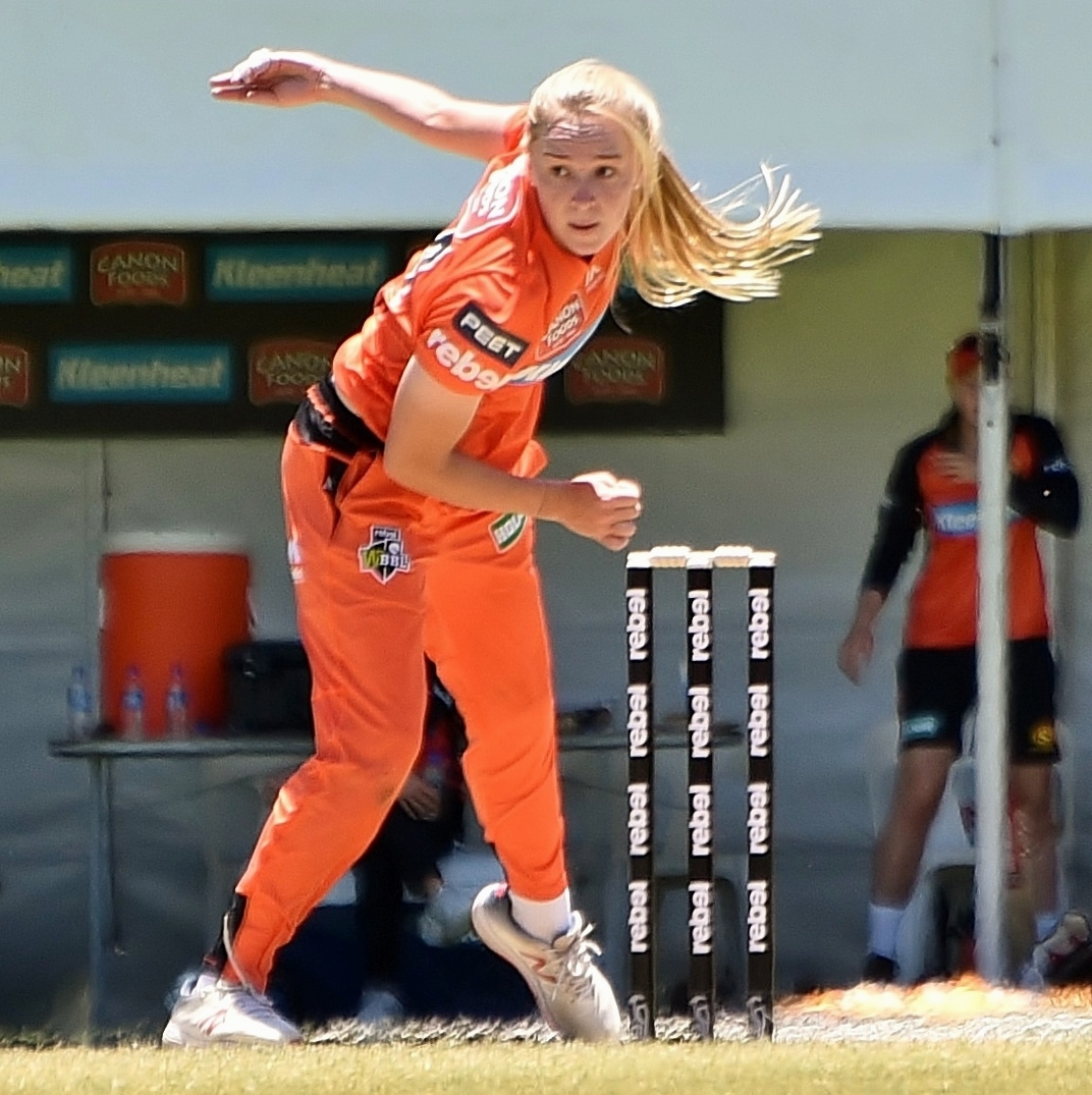 Perth Scorchers all-rounder Kim Garth bowling against the Sydney Sixers, in a WBBL match at Lilac Hill Park in Perth